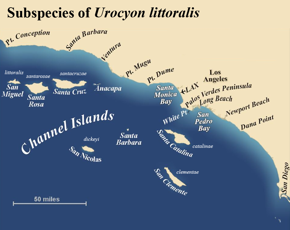 Distribution of subspecies of Urocyon littoralis